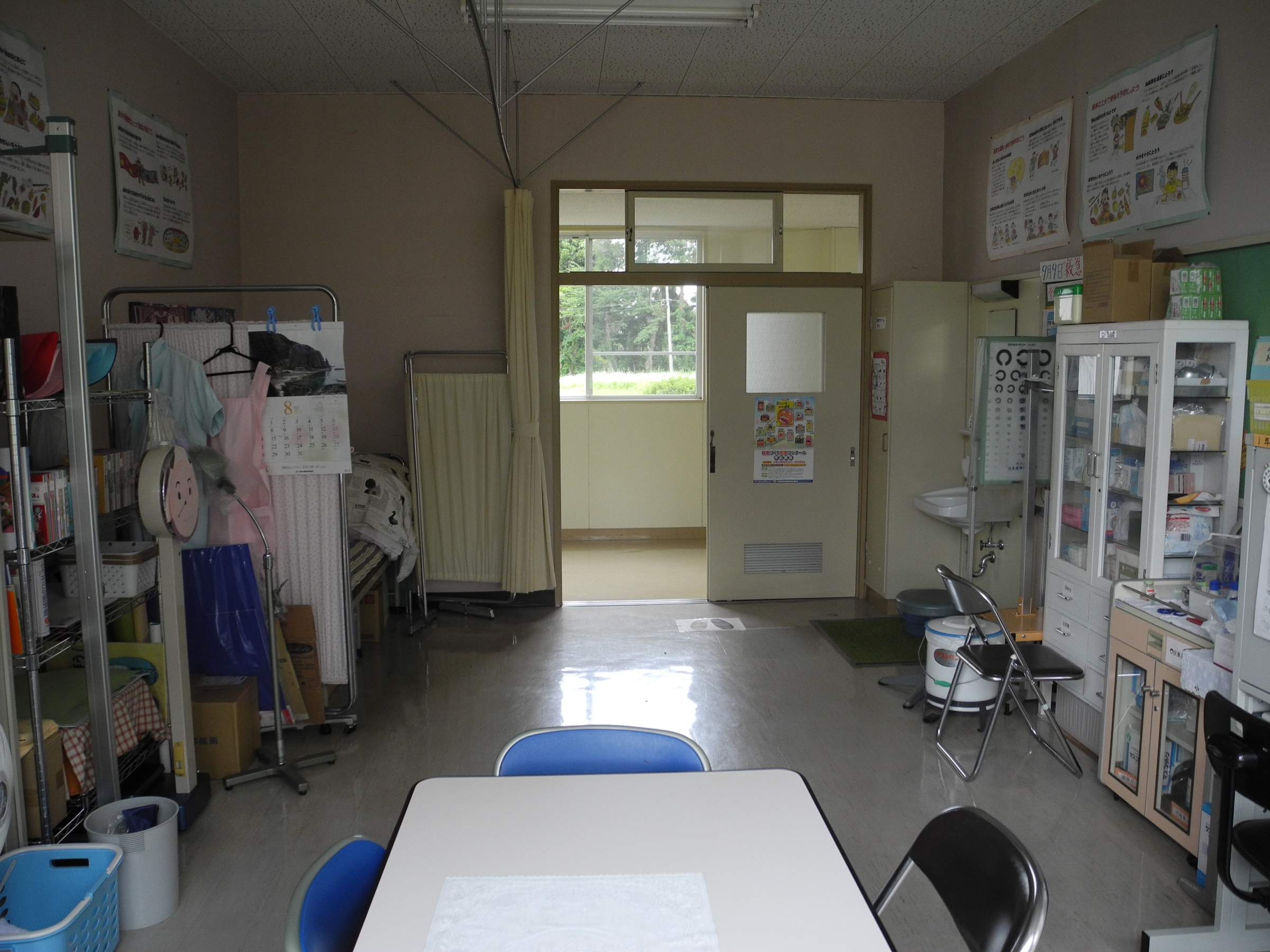 The nurse's office at Hitane Elementary School, photographed standing at the window looking toward the hallway. Shimo-Hitane, Chokai, Yurihonjo, Akita, Japan.